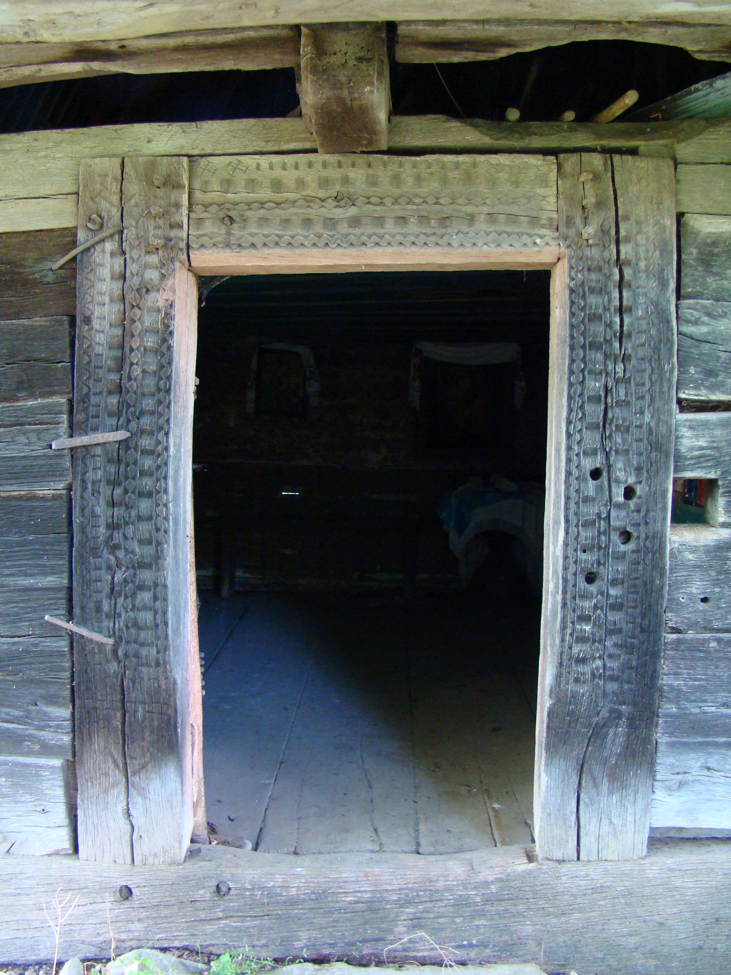 Wooden church in Apatiu, Bistrița-Năsăud county